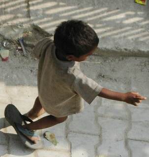 A poor child trying a broken thrown away chappal in one foot